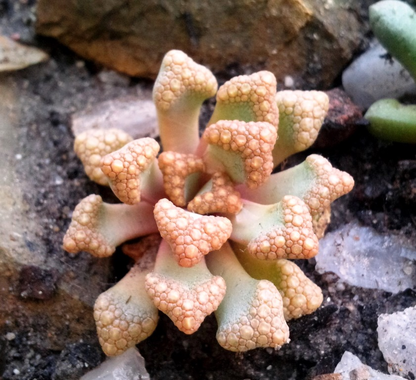 Titanopsis hugo-schlechteri - photo taken in Cape Town